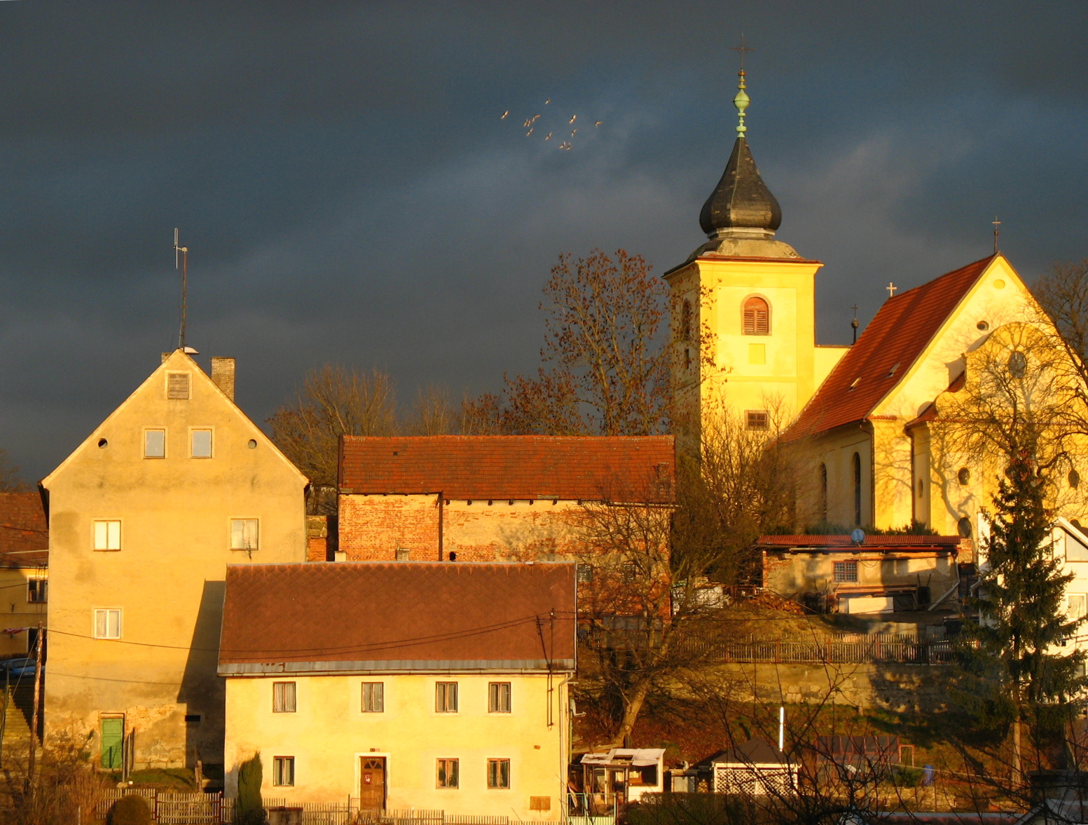 Village of Dolní Žandov with St Michael church, Cheb District, Czech Republic